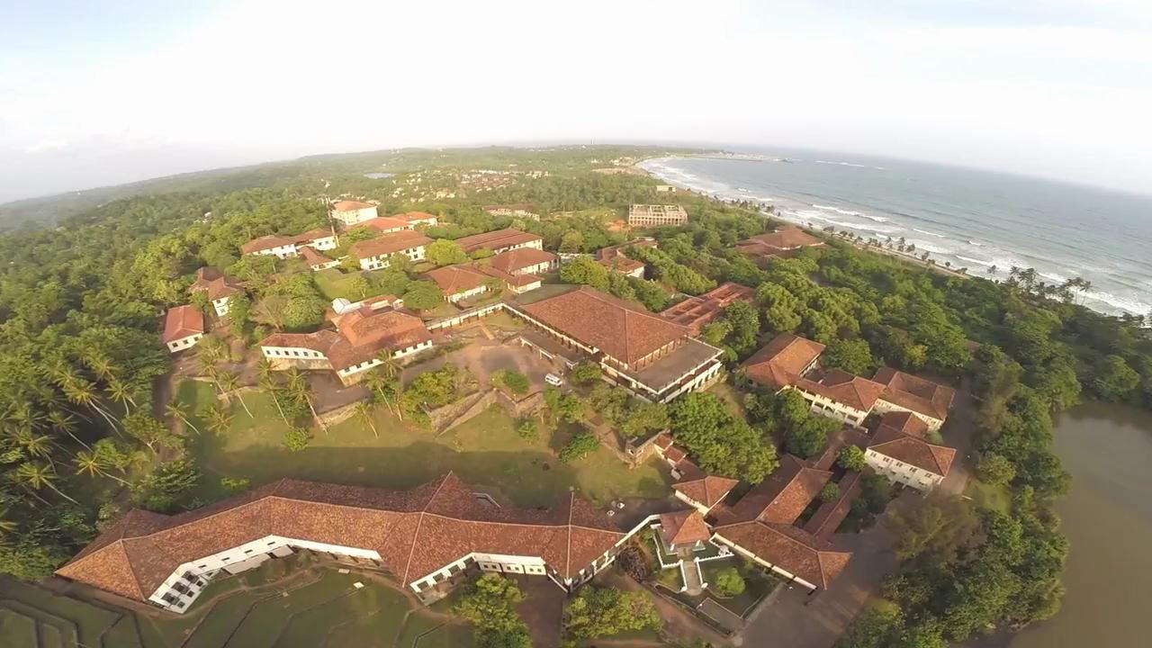 ruhuna view